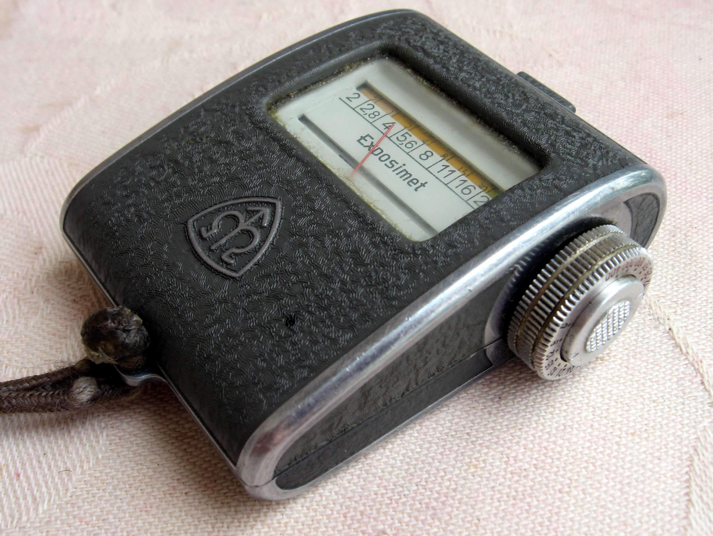 Old light meter for photography made by Metra Blansko